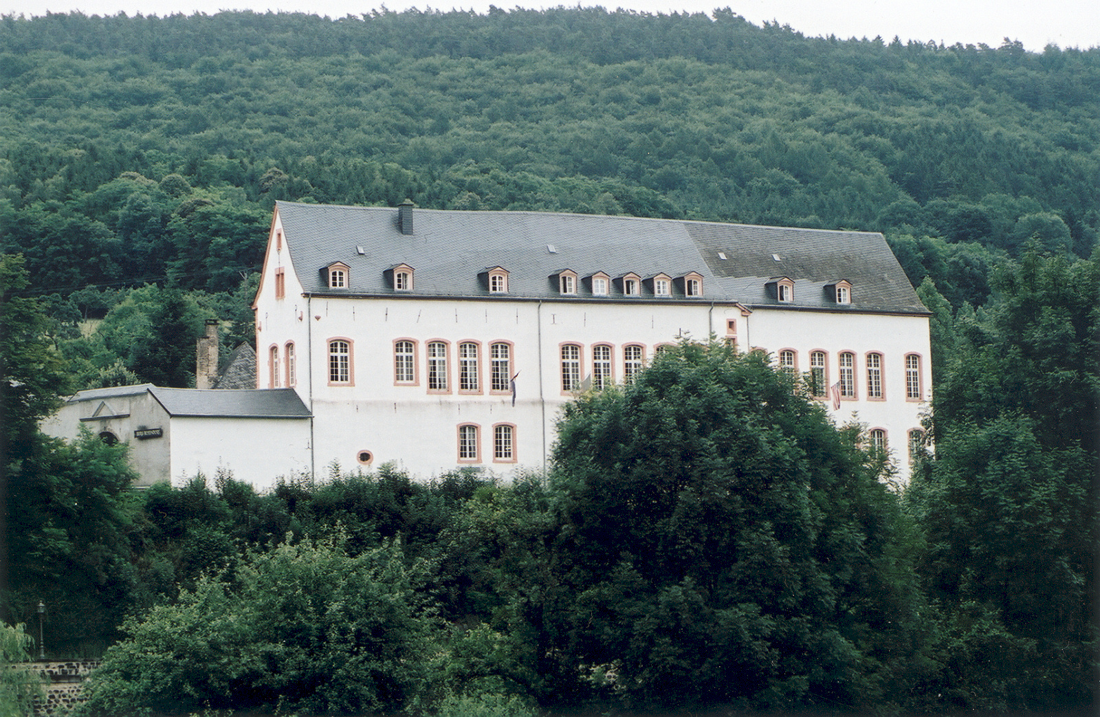 Bollendorf Castle in Bollendorf, Rhineland-Palatinate, western aspect